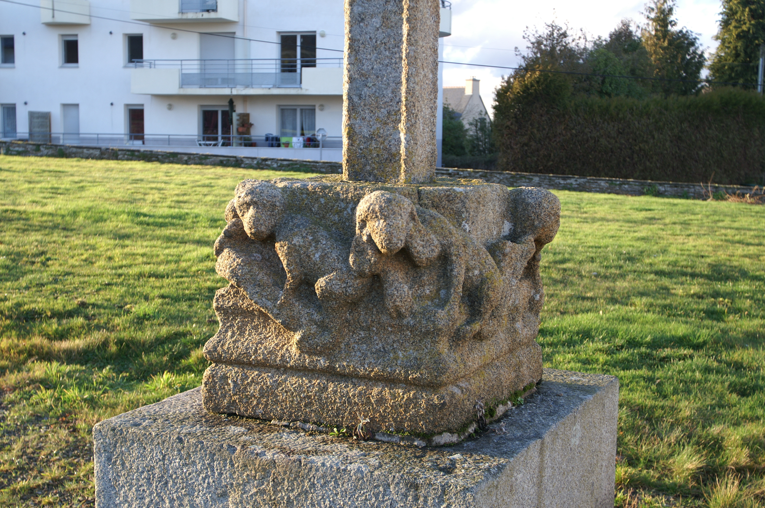 Cemetery cross in Noyal-Châtillon-sur-Seiche.